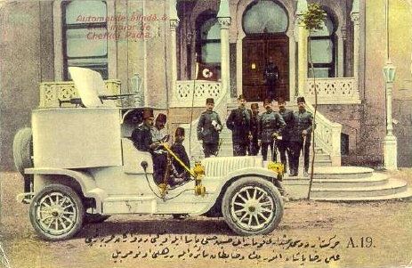 Armoured vehicle and staff of Chefket Pasha